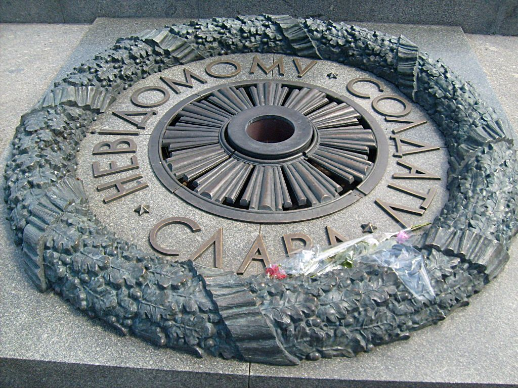 Eternal flame in Kiev